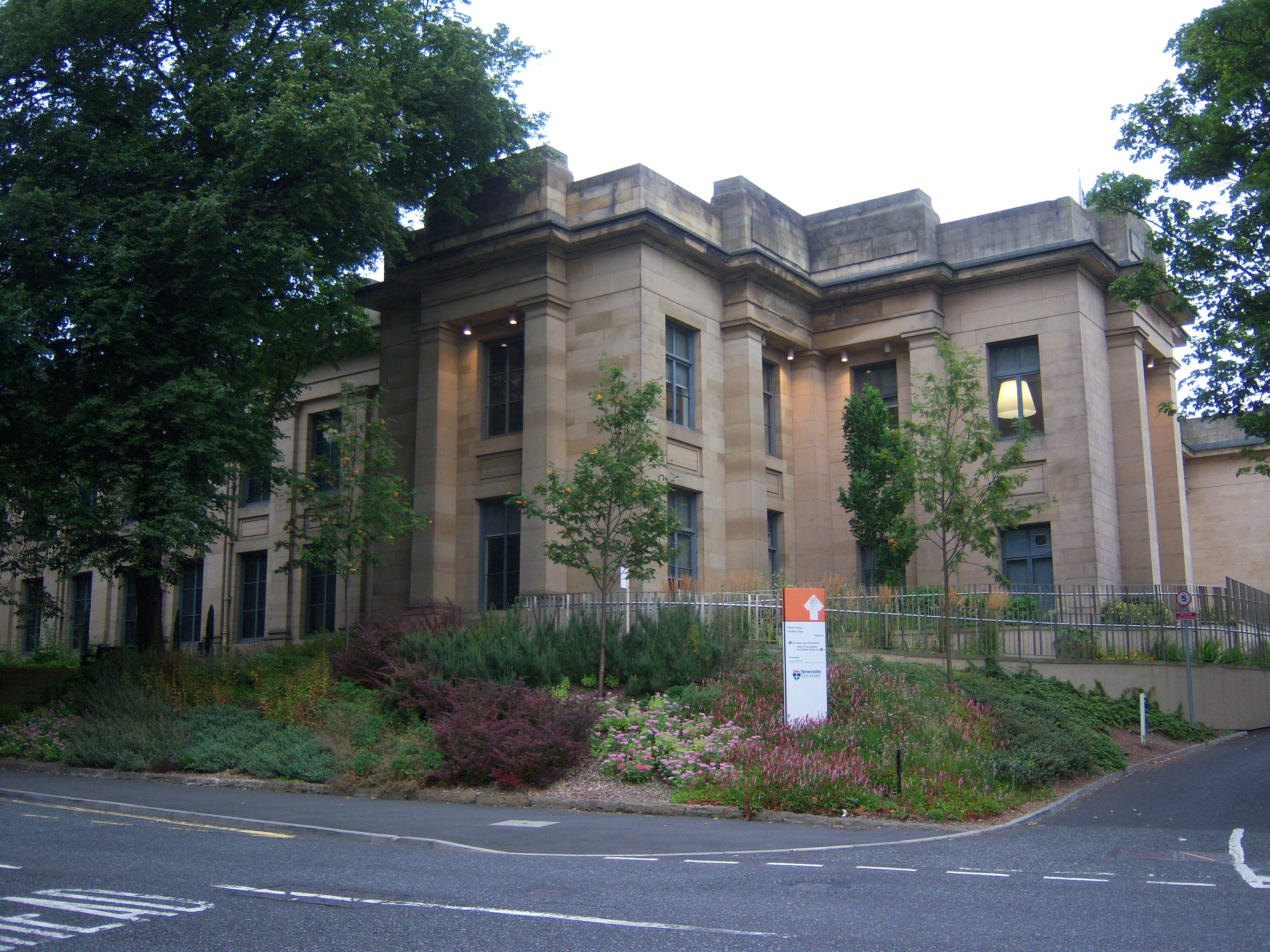 Hancock Museum, Newcastle upon Tyne. SW corner.